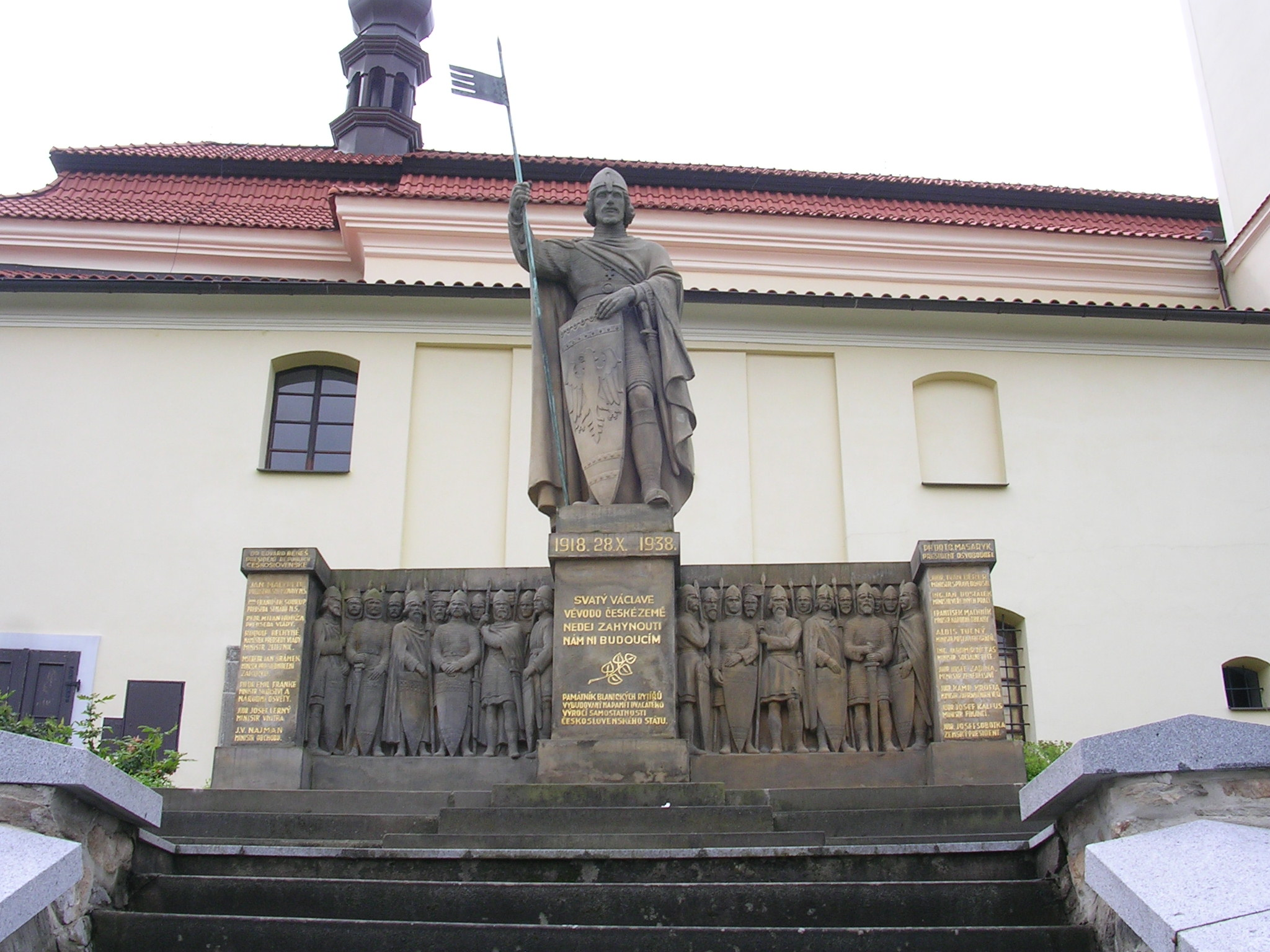 Votice, Benešov District, Central Bohemian Region, the Czech Republic.